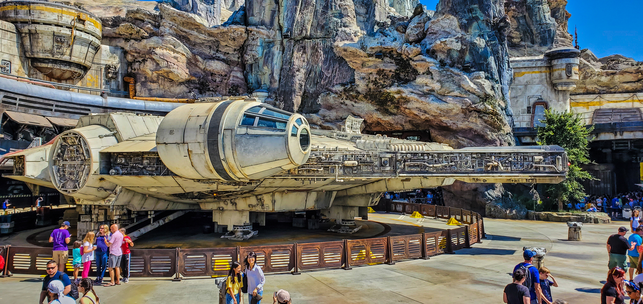 Millennium Falcon at Disneyland